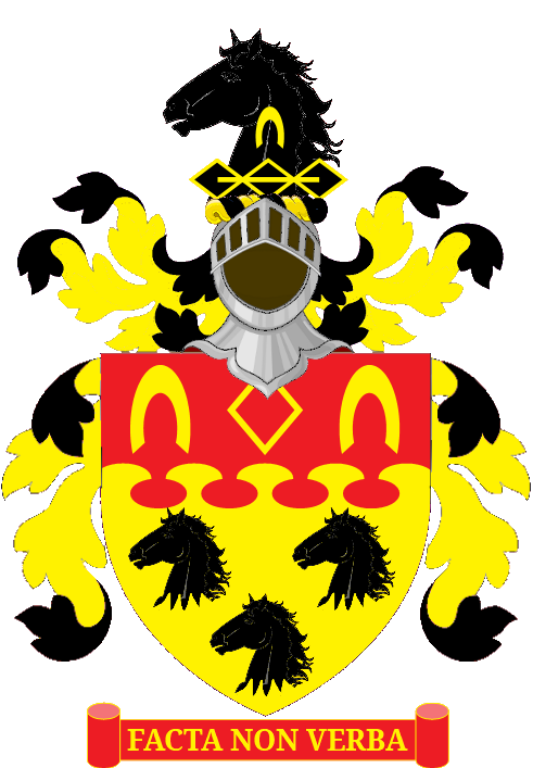 The armorial achievement of Sir Christopher John Slade